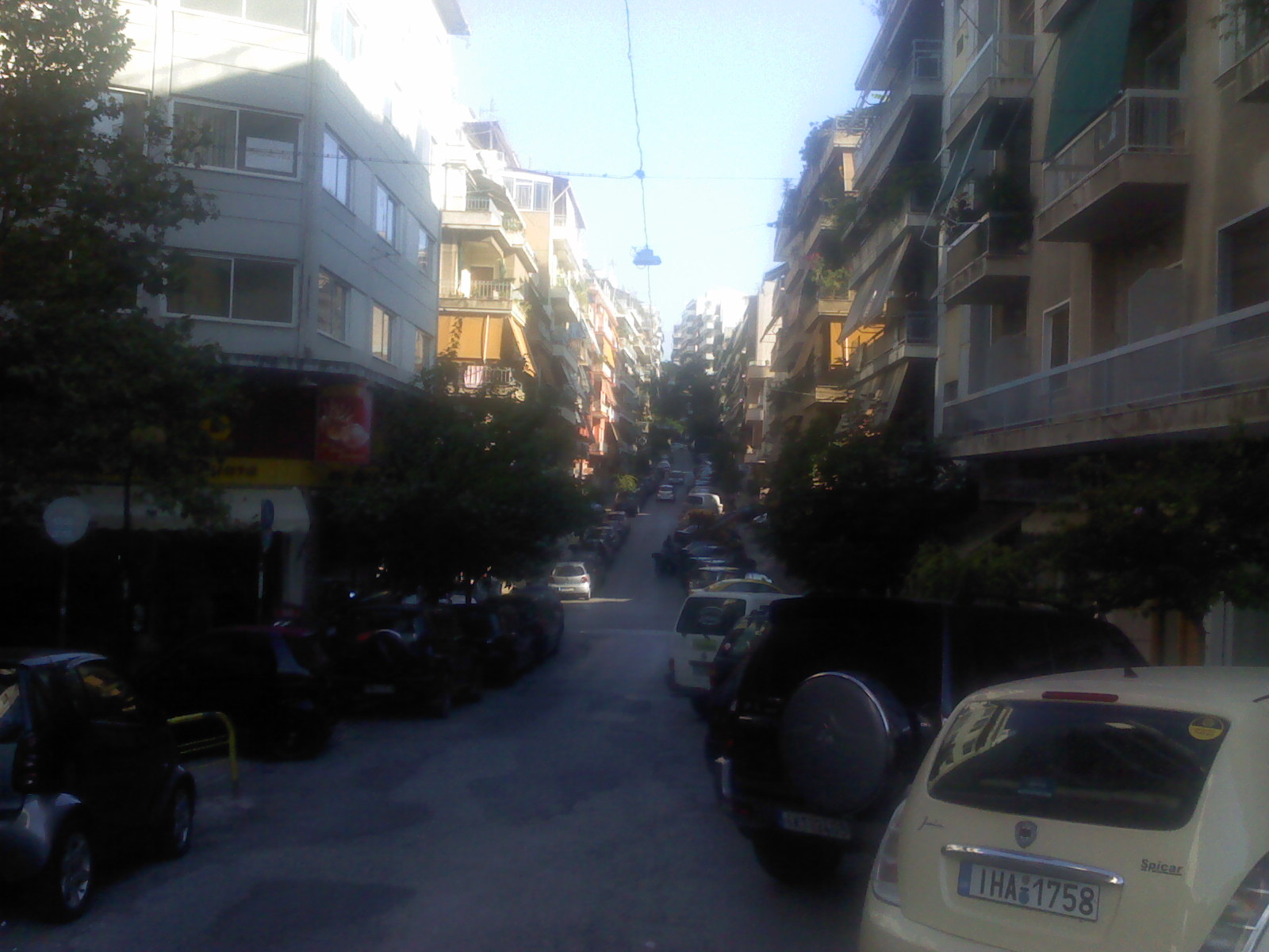 Neighborhood Gkizi